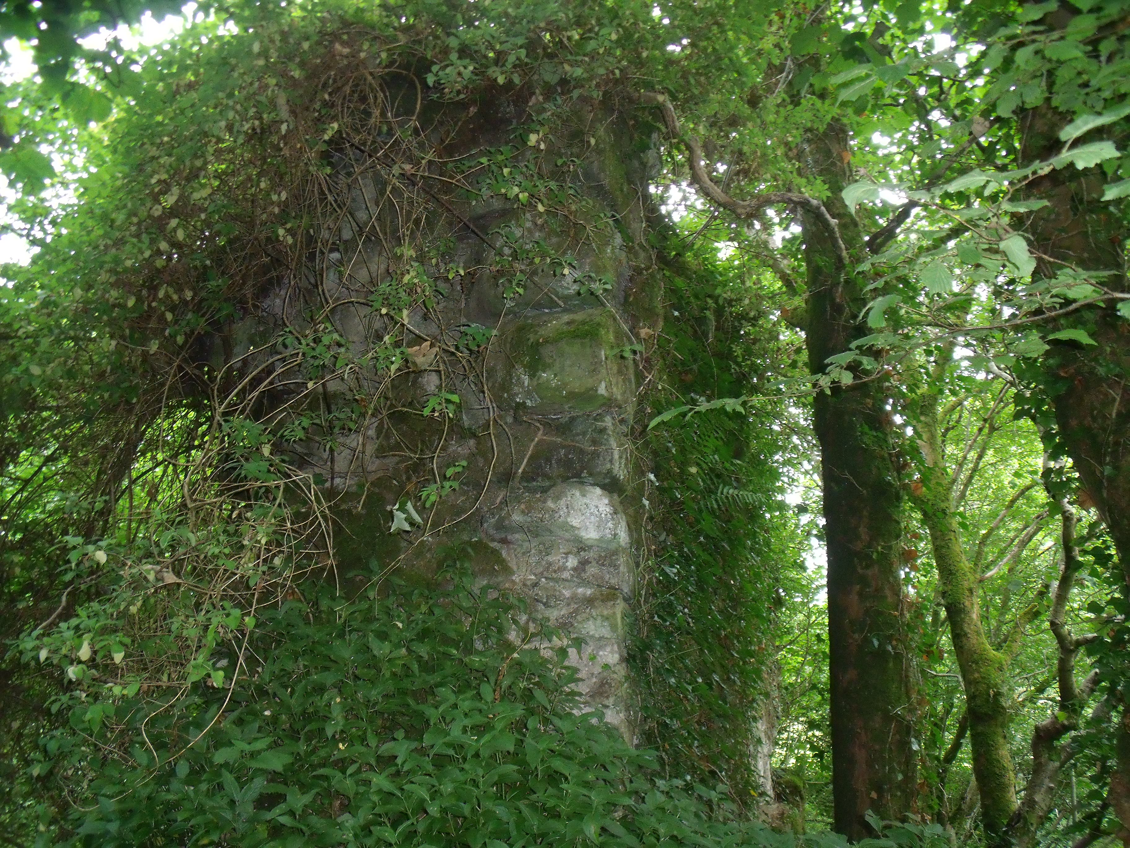 Duchal Castle, Kilmacolm, Inverclyde, Renfrewshire, Scotland. .uk/en/site/42298/details/duchal+castle/ The scale can only be appreciated by visiting.